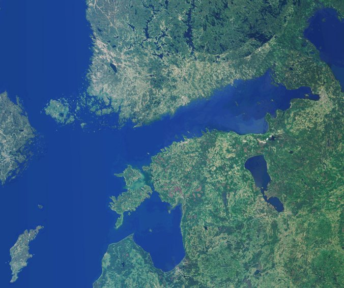 Gulf of Finland and Estonia